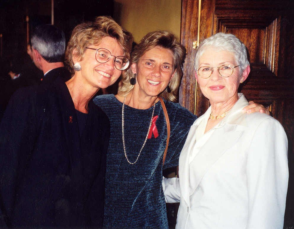 Betty DeGeneres, Ellen's mom (right) with Donna and Kris in the lobby of the Pasadena Civic Auditorium,, 9/14/97 - Permission granted to copy, publish, broadcast or post but please credit "photo by Alan Light" if you can